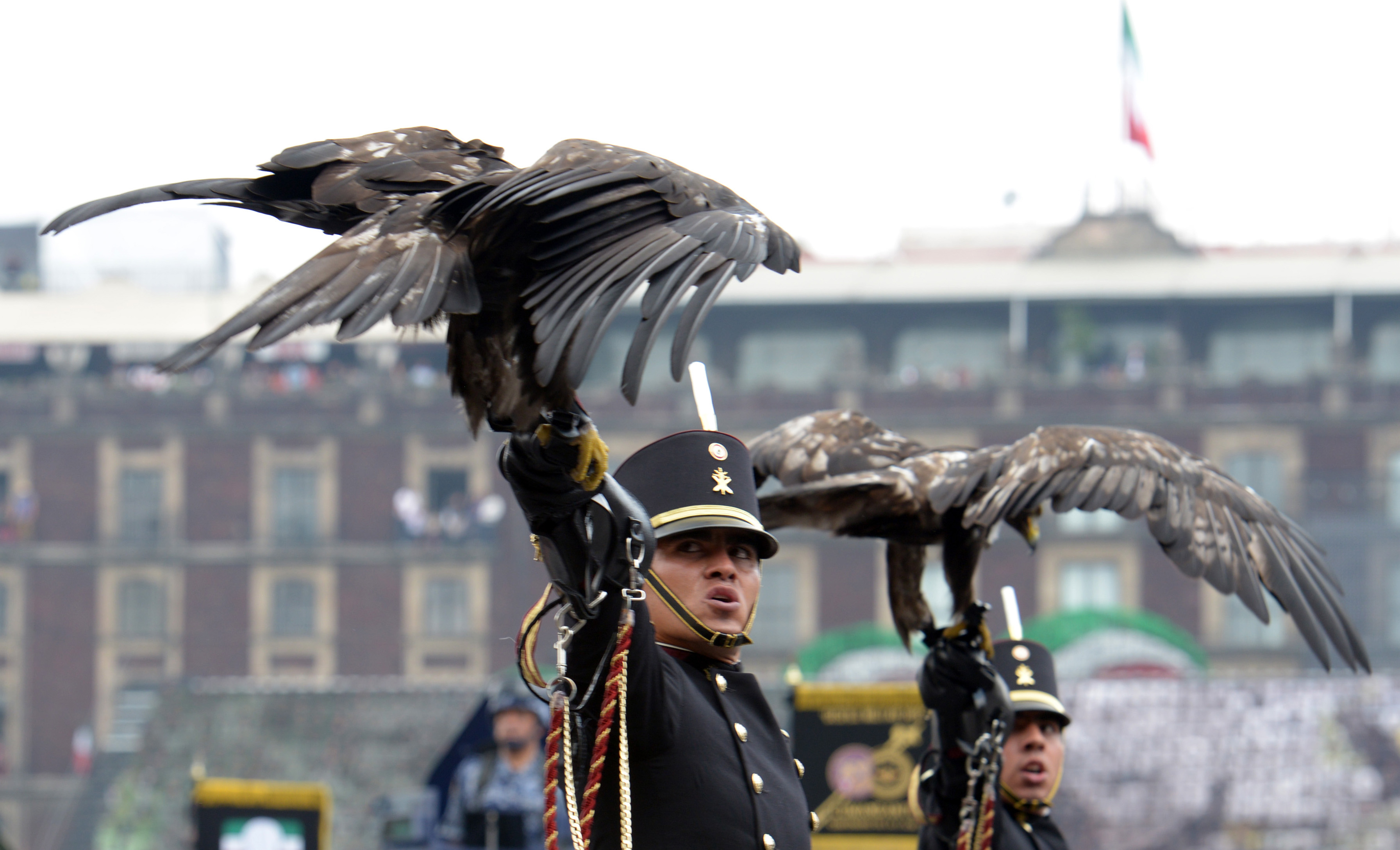 Desfile Militar Conmemorativo del CCV Aniversario del Inicio de la Independencia de México. Ciudad de México. 16 de septiembre de 2015.